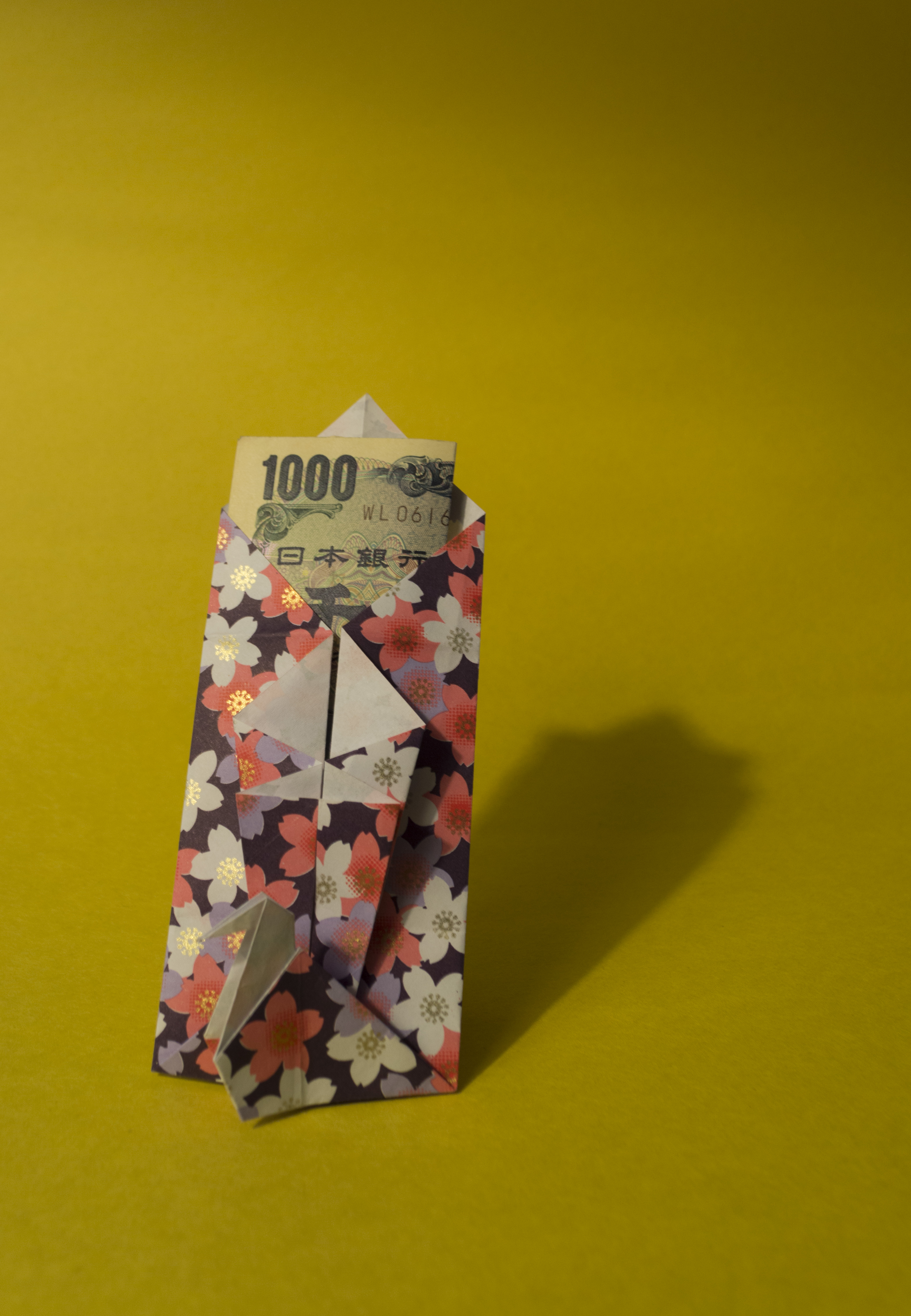 This picture shows what otoshidama looks like. In addition, the pot bag is made of origami.